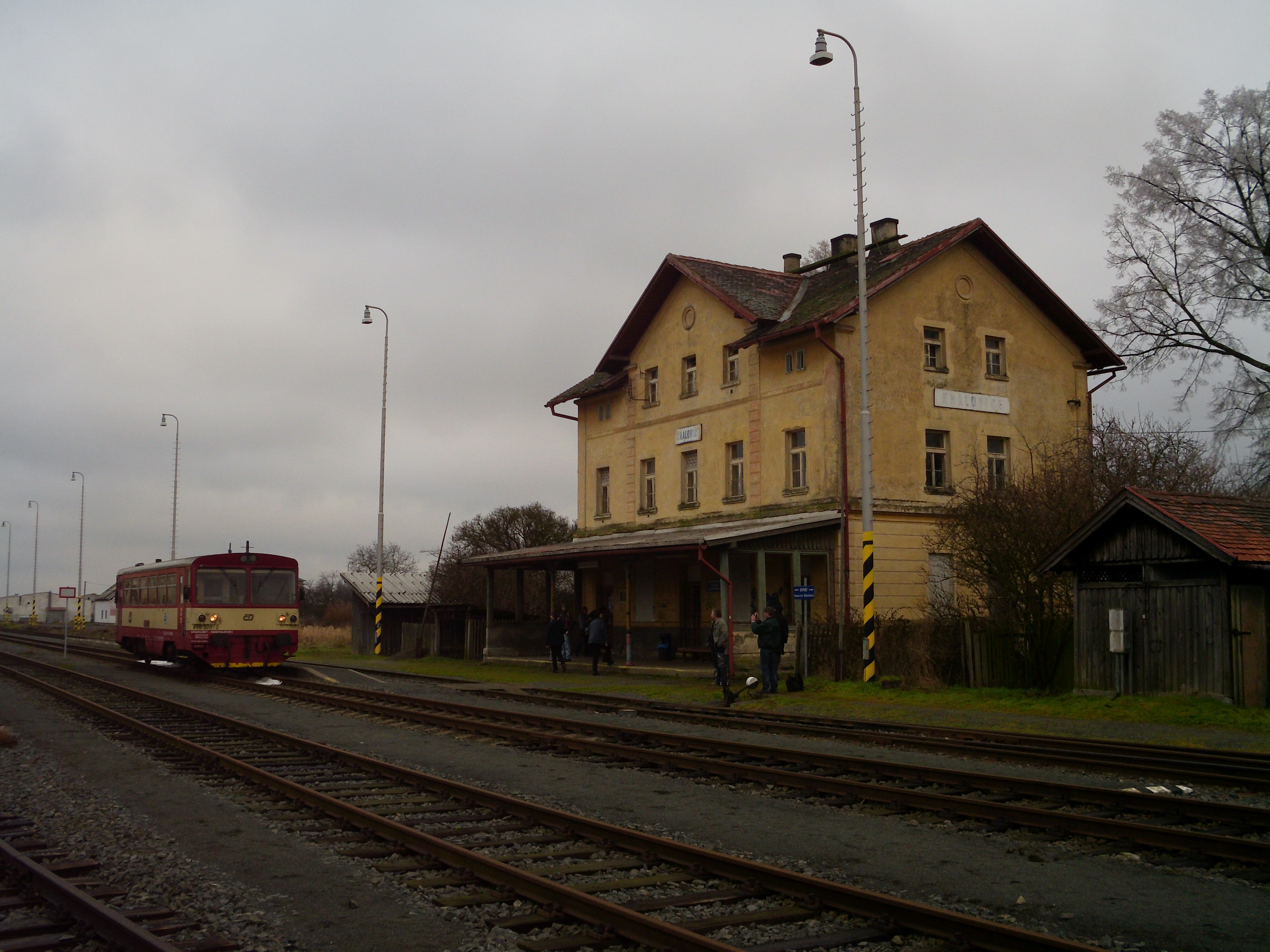 Diesel railcar 810.320-2 at a station in Kralovice u Rakovníka on Rakovník - Mladotice route in the Czech Republic.